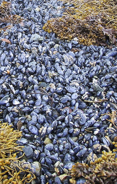 Mussels in the intertidal zone in northern Norway